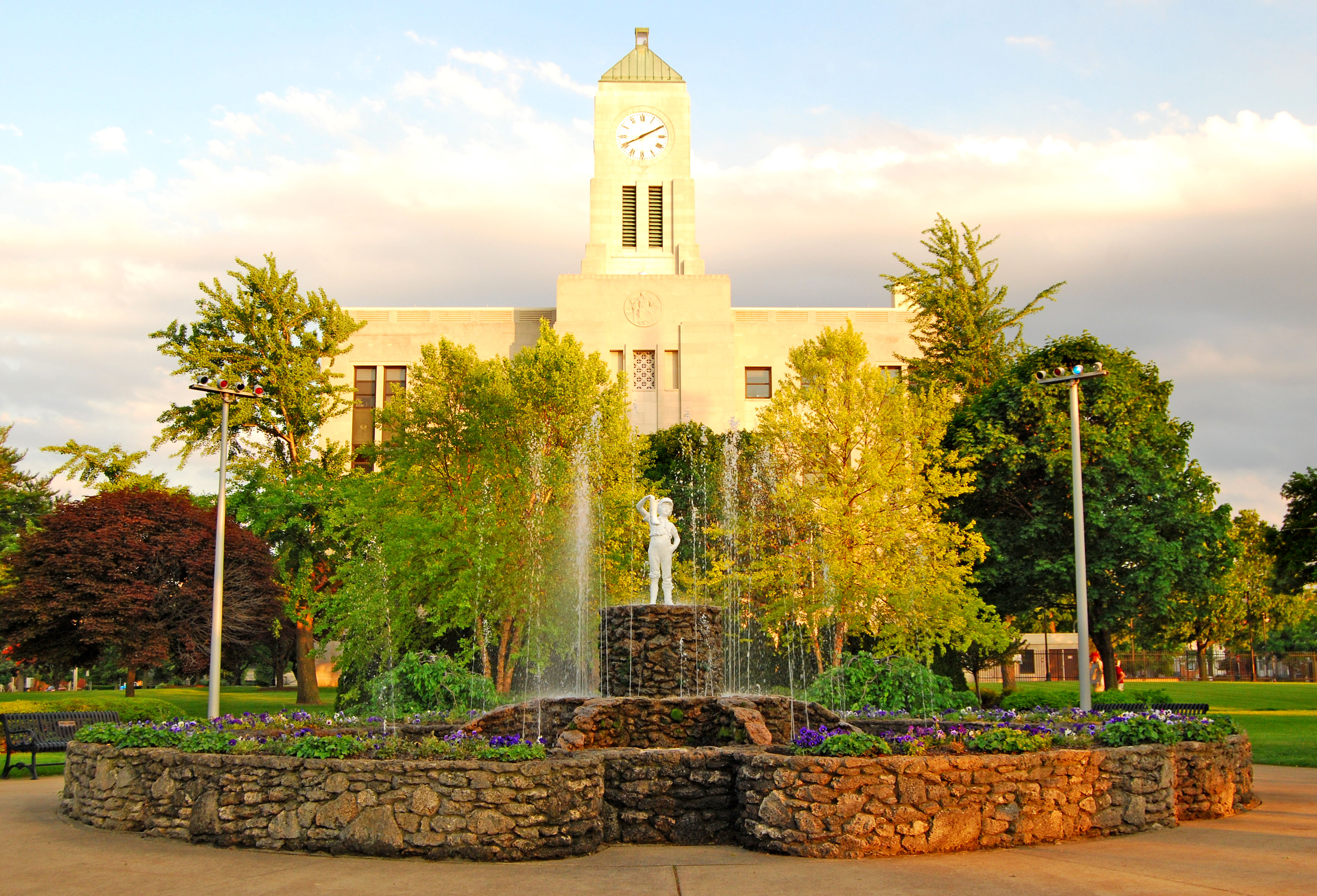 The Boy with the Boot statue was given to the city of Sandusky by Voltaire Scott. It was displayed in Scott's Park at the foot of Wayne Street, beginning in 1895. After Scott's death, the statue was stored in the city greenhouse. In the 1930's, it was placed in a fountain in front of the courthouse in Washington Park. There are several similar statues in the United States and abroad. The Boy with the Boot serves as the unofficial mascot of the city of Sandusky. After several acts of vandalism in the 1990's, a second statue was cast in bronze. The original zinc statue stands in the lobby of the City Hall building, while the bronze Boy with the Boot remains in Washington Park year round. Washington Park Web site Other "boys with boots" around the country